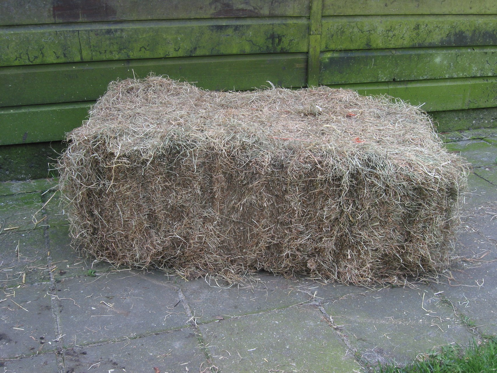 Hay bale